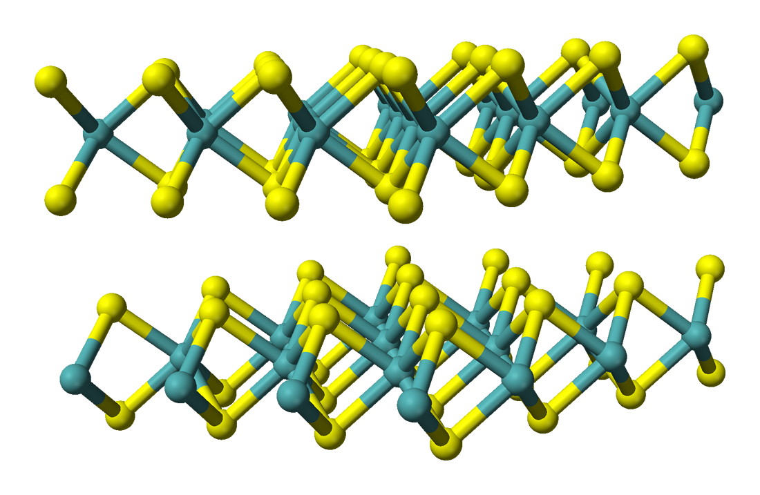 Ball-and-stick model of the part of the crystal structure of molybdenite, MoS2. Crystal structure data from The American Mineralogist Crystal Structure Database.